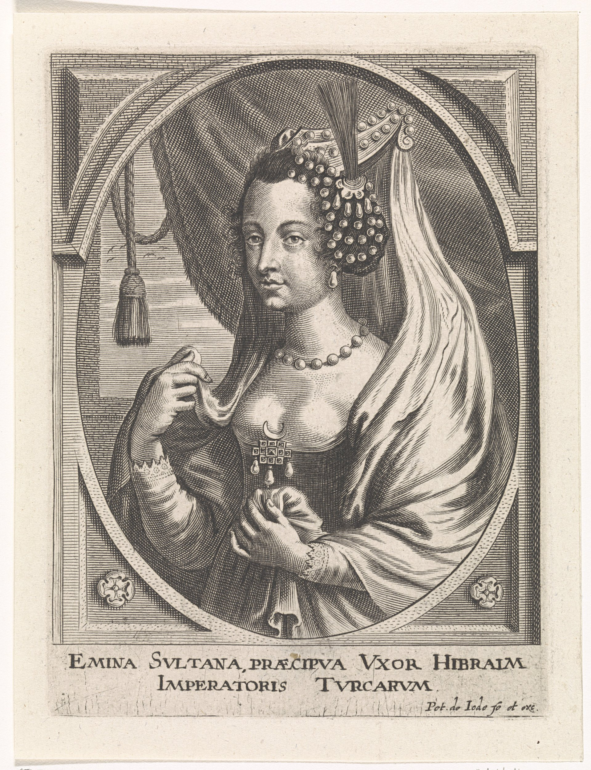 Portrait by Pietro do Jode II of Emina Sultan, the principal wife of Sultan Ibrahim of Turkey. The Latin caption reads "Praecipua Uxor Hibraim Imperatoris Turcarum" or "Principal Wife of Ibraham Ruler of the Turks". The print was likely made in Belgium between 1640 and 1660 and is part of a series of Turkish notables by Jode.